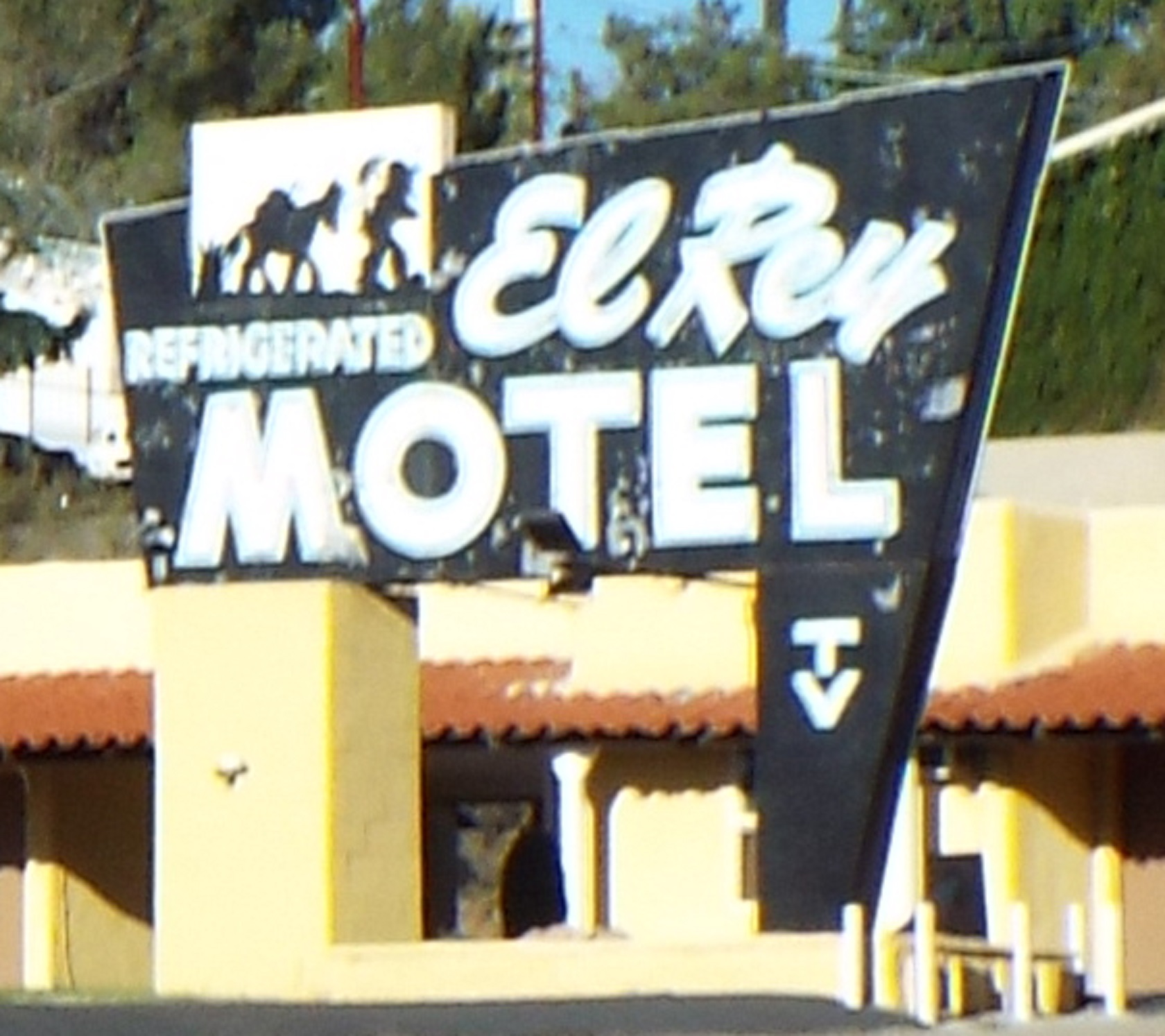 Globe-El Rey Vintage Motor Court sign-1938